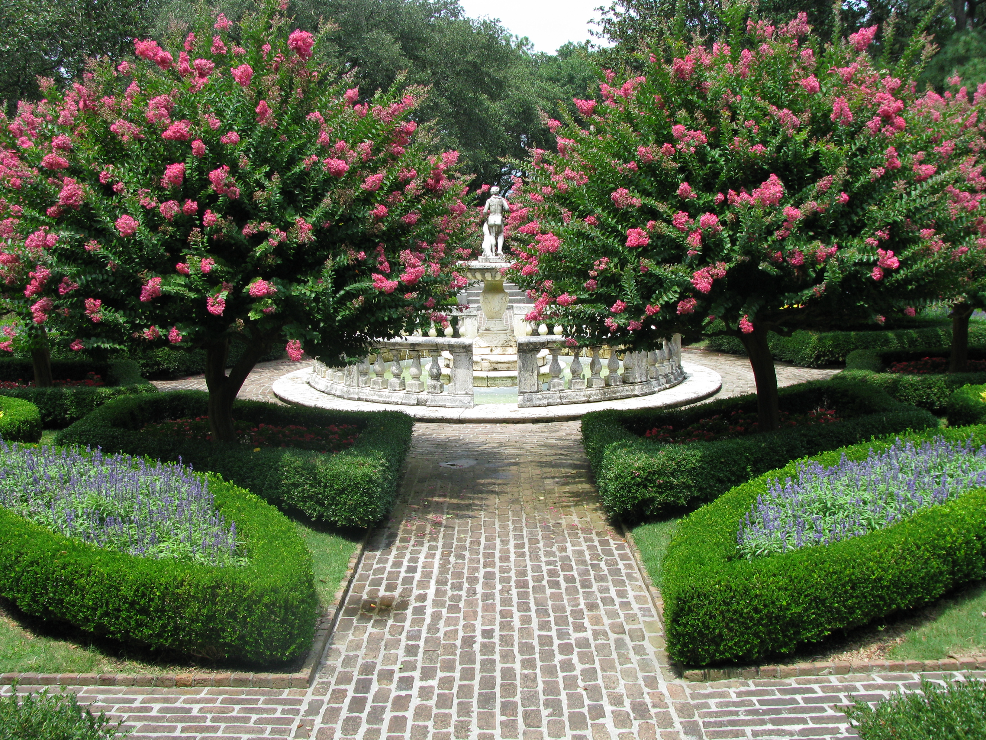 Lagerstroemia indica trees at the sunken garden at the Elizabethan Gardens in Manteo, North Carolina.